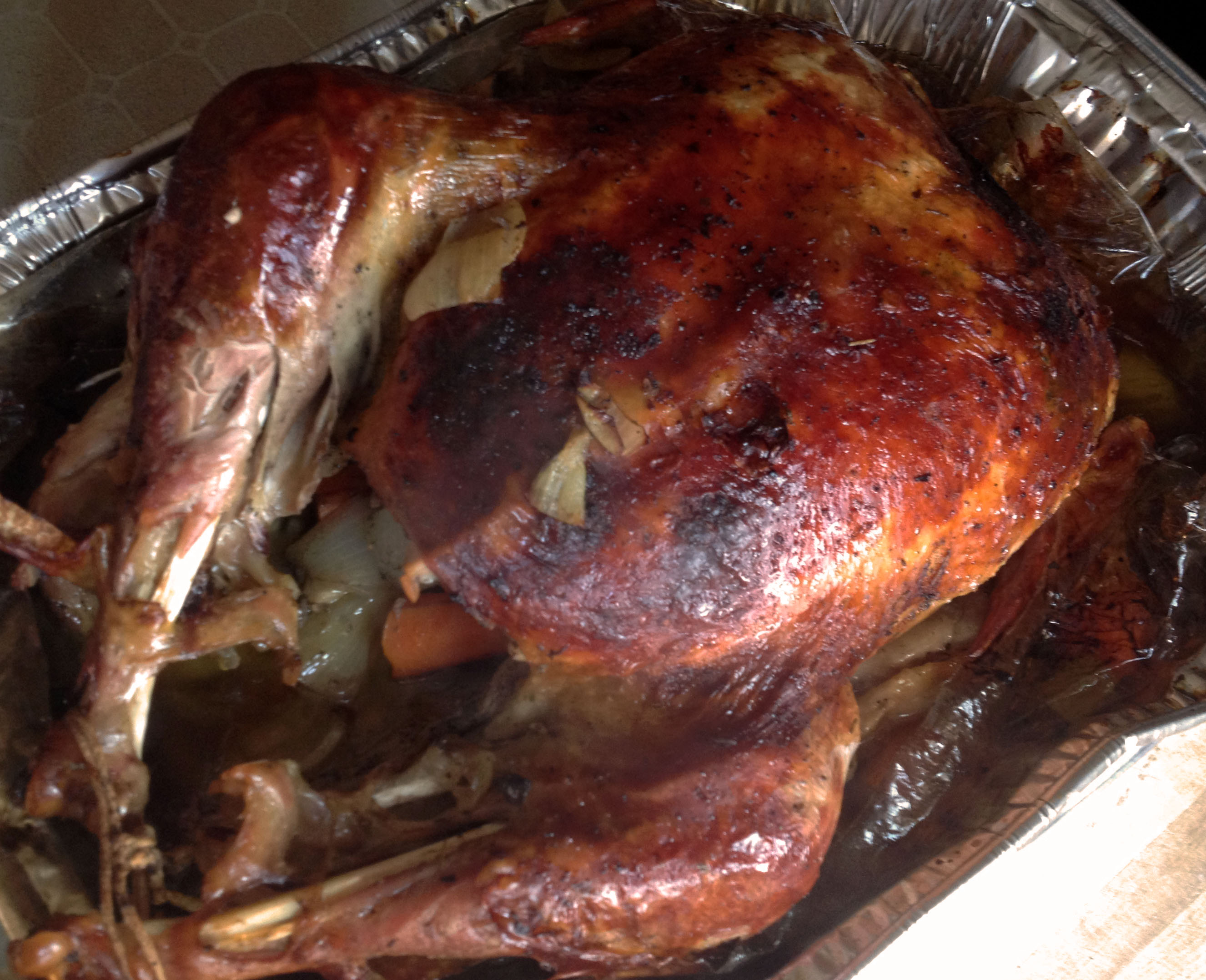 Pictures of Food Cooked thanksgiving turkey